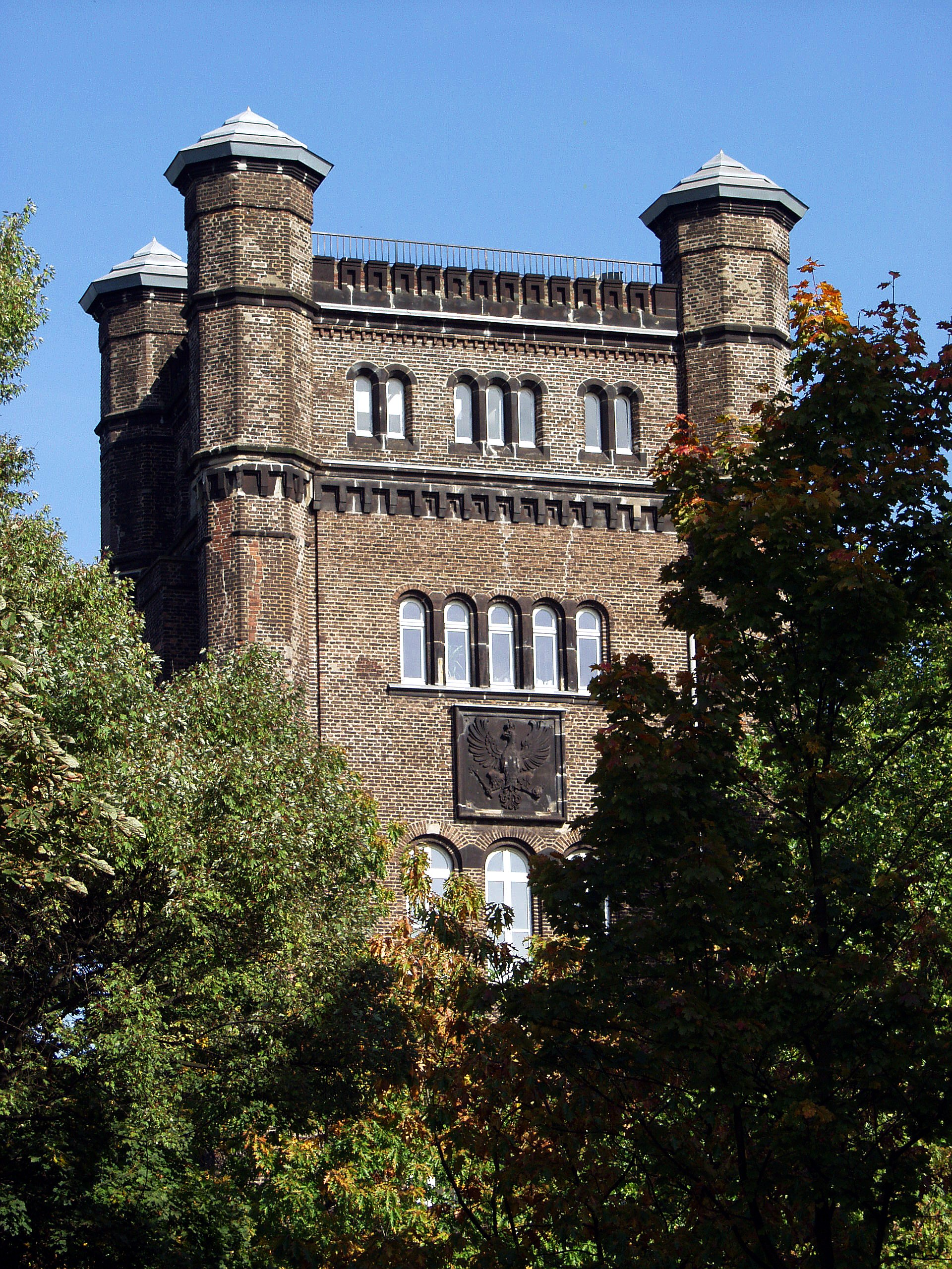 Tower of the historic traject (railway ferry) Ruhrort-Homberg, Duisburg, Germany This is a photograph of an architectural monument.